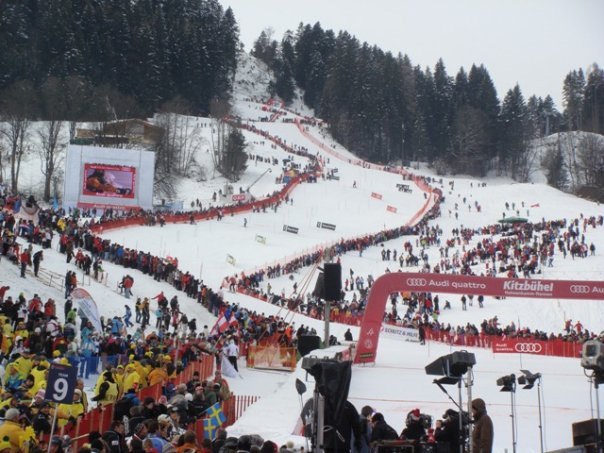 slalom course of the 2010 world cup hahnenkamm race in kitzbuehel, austria